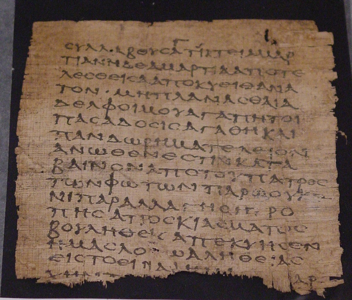 page with text of James 1:15-18